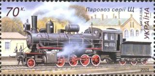 Stamp of Ukraine